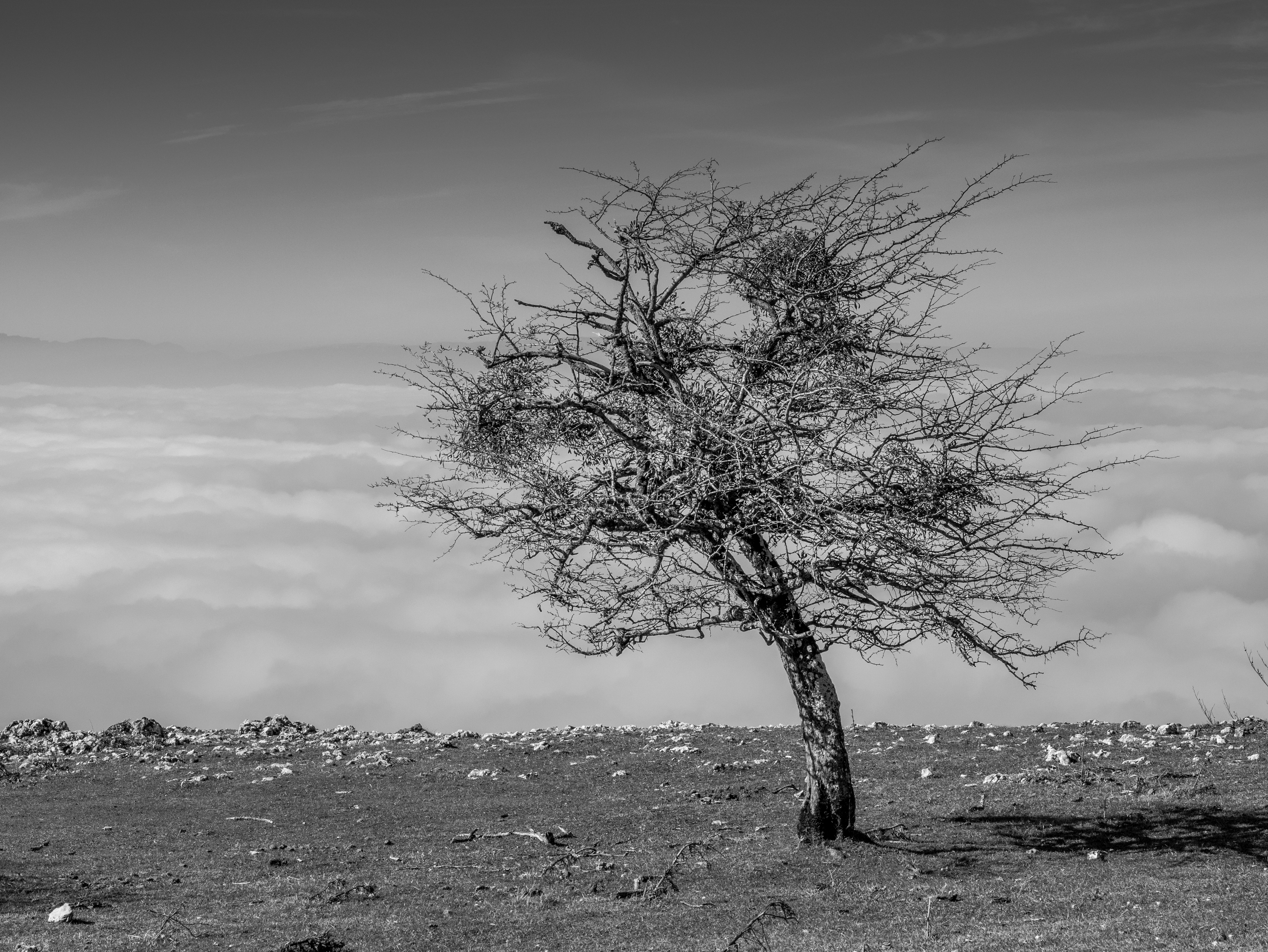 Hawthorn (Crataegus) in the Entzia mountain range, over a sea of fog in the back. Álava, Basque Country, Spain